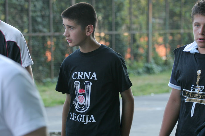 A boy going to Thompson concert